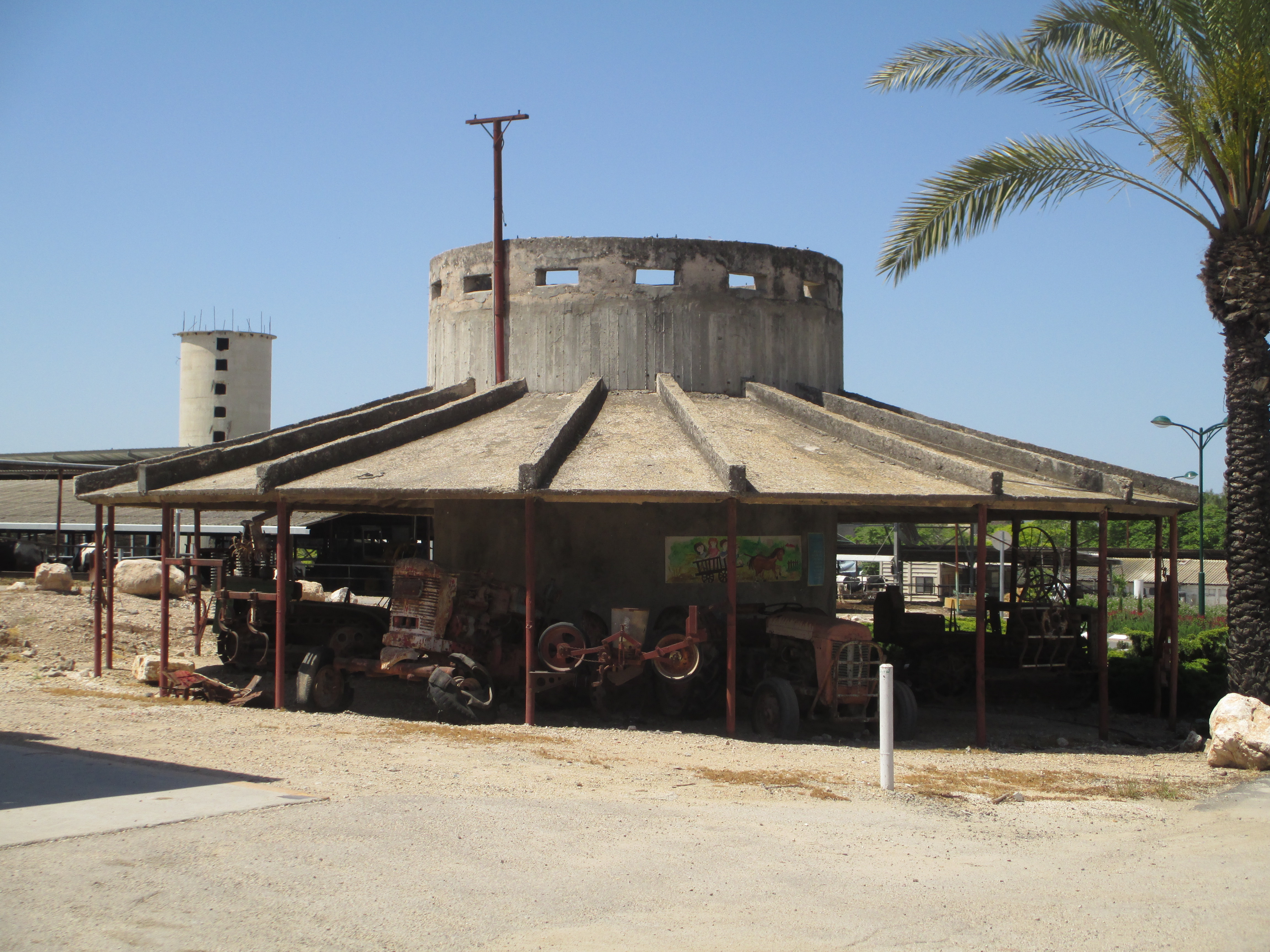 Old water pool in Gvat